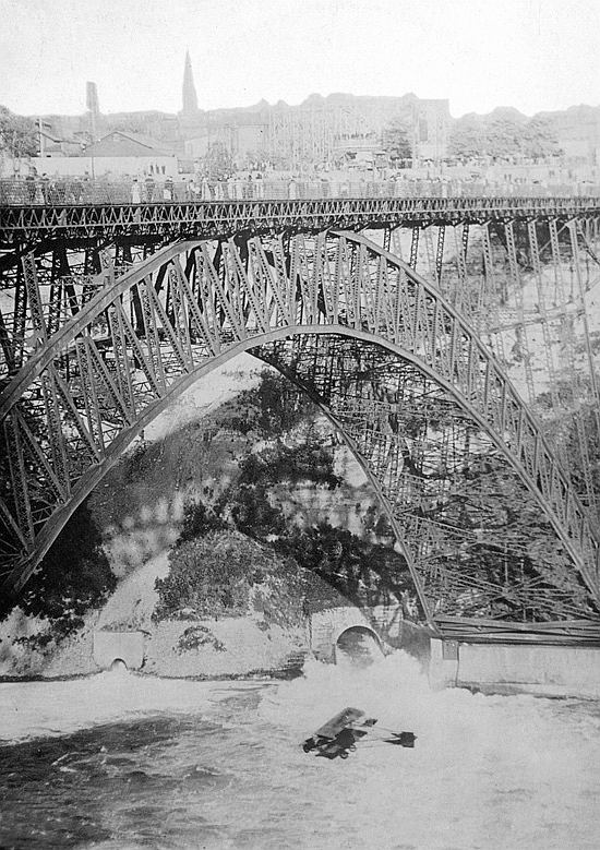 Curtiss Model D. flies under Honeymoon Bridge, Niagara River. Catalog #: 00064496 Manufacturer: Curtiss Designation: Model D Official Nickname: Notes: Pusher landplane without front horizontal Repository: San Diego Air and Space Museum Archive